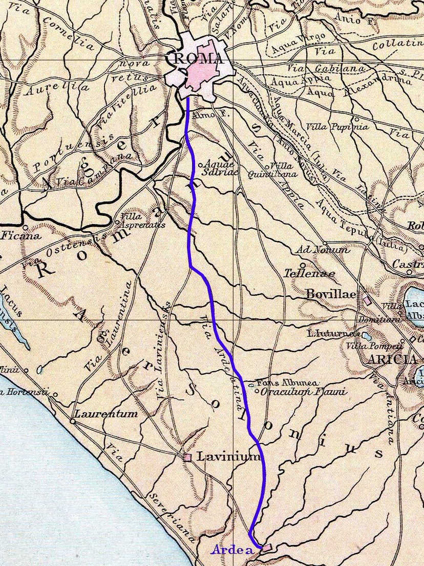 Ancient roman Ardeatina way (blue color). The path was from Rome to Ardea